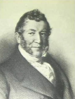 Alphonse de Woelmont